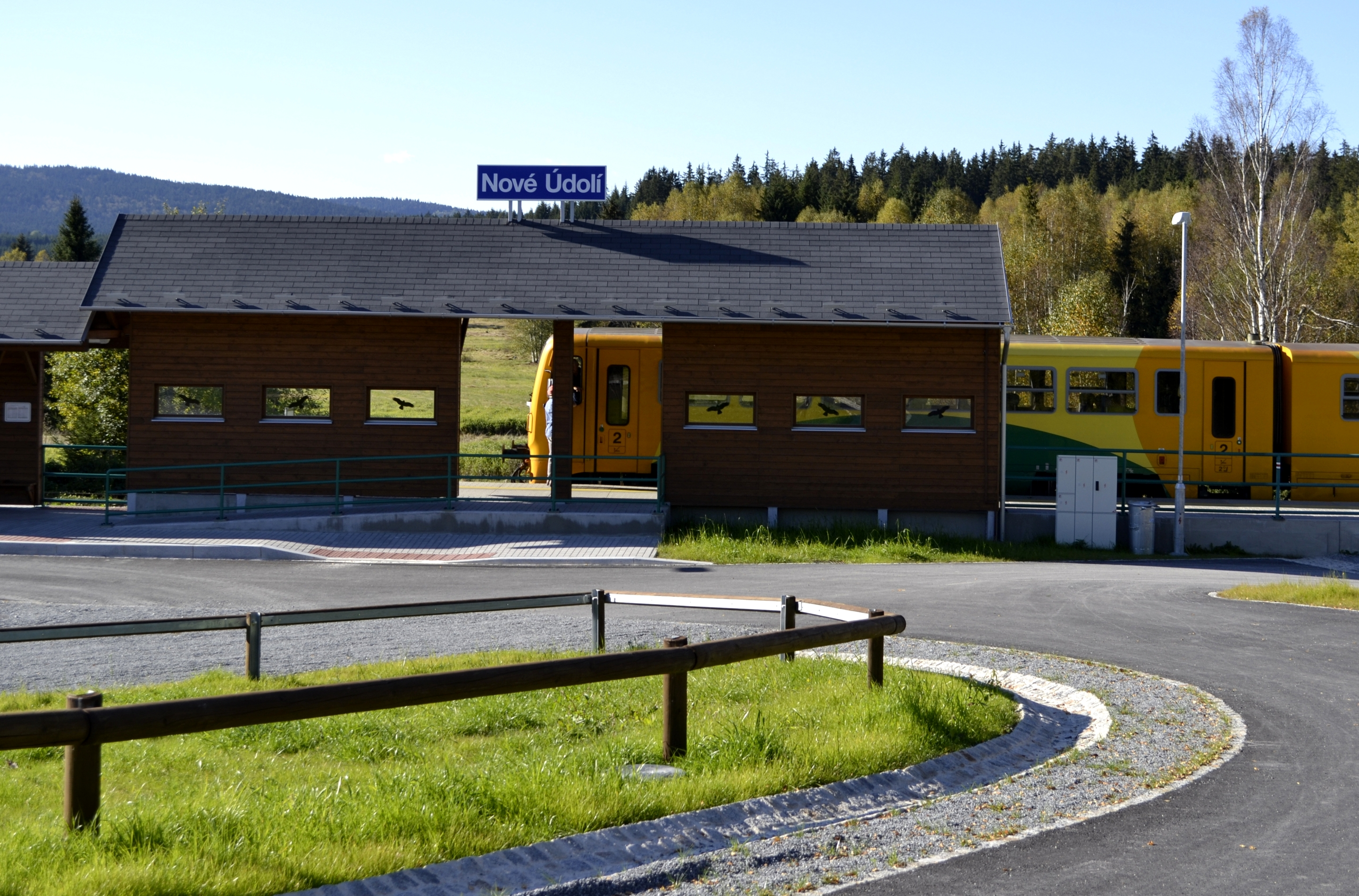 The train station in Nové Údolí in 2011.